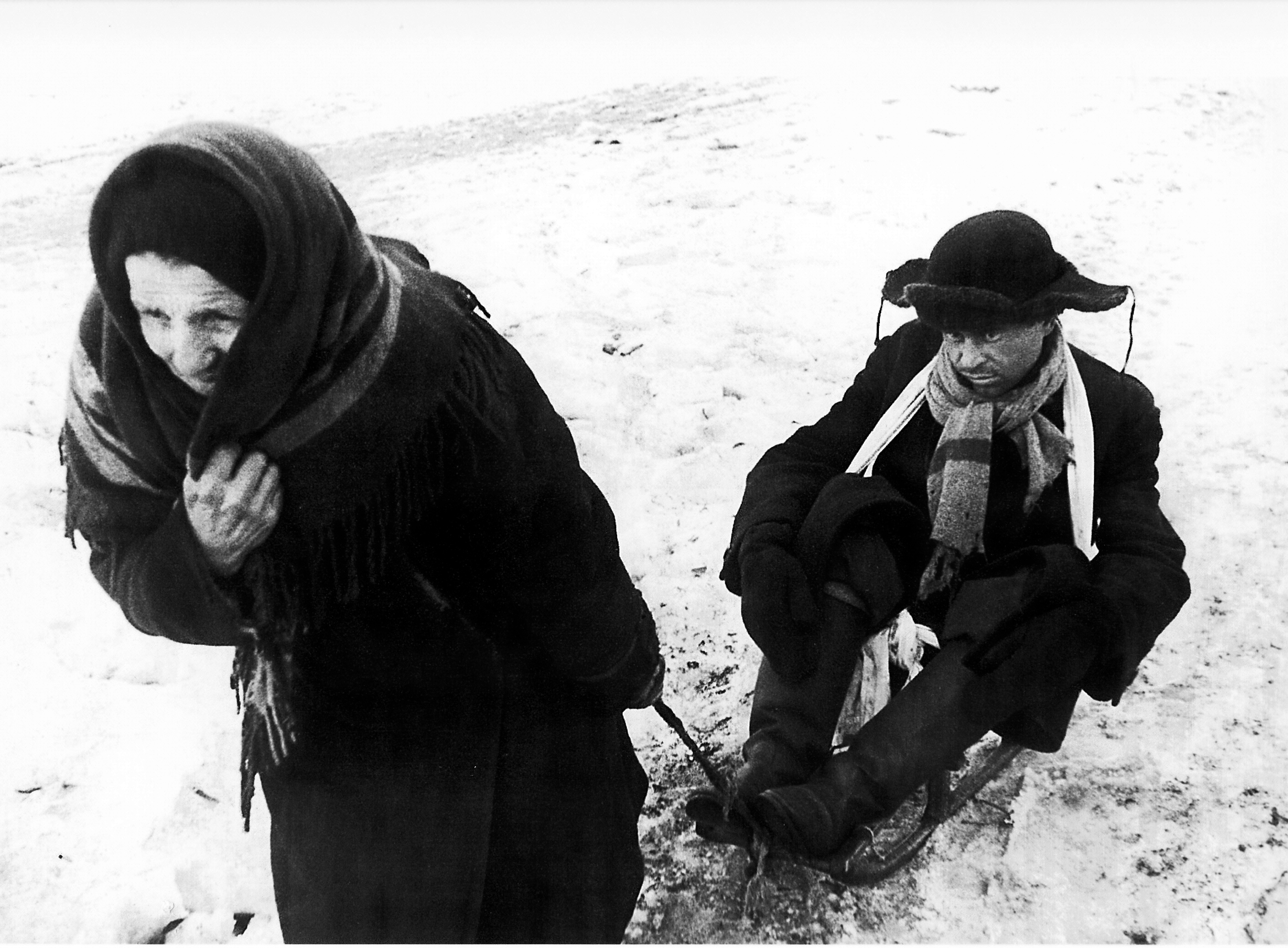 “Starving people”.. An old woman sledging a starving young man in besieged Leningrad.